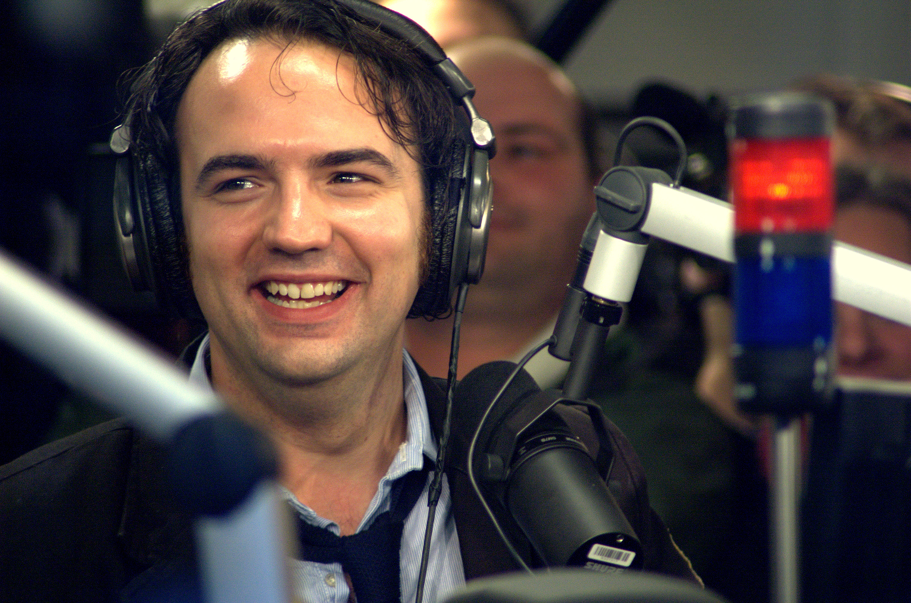 3FM dj Gerard Ekdom in conversation with Prince Willem Alexander van Oranje Nassau.